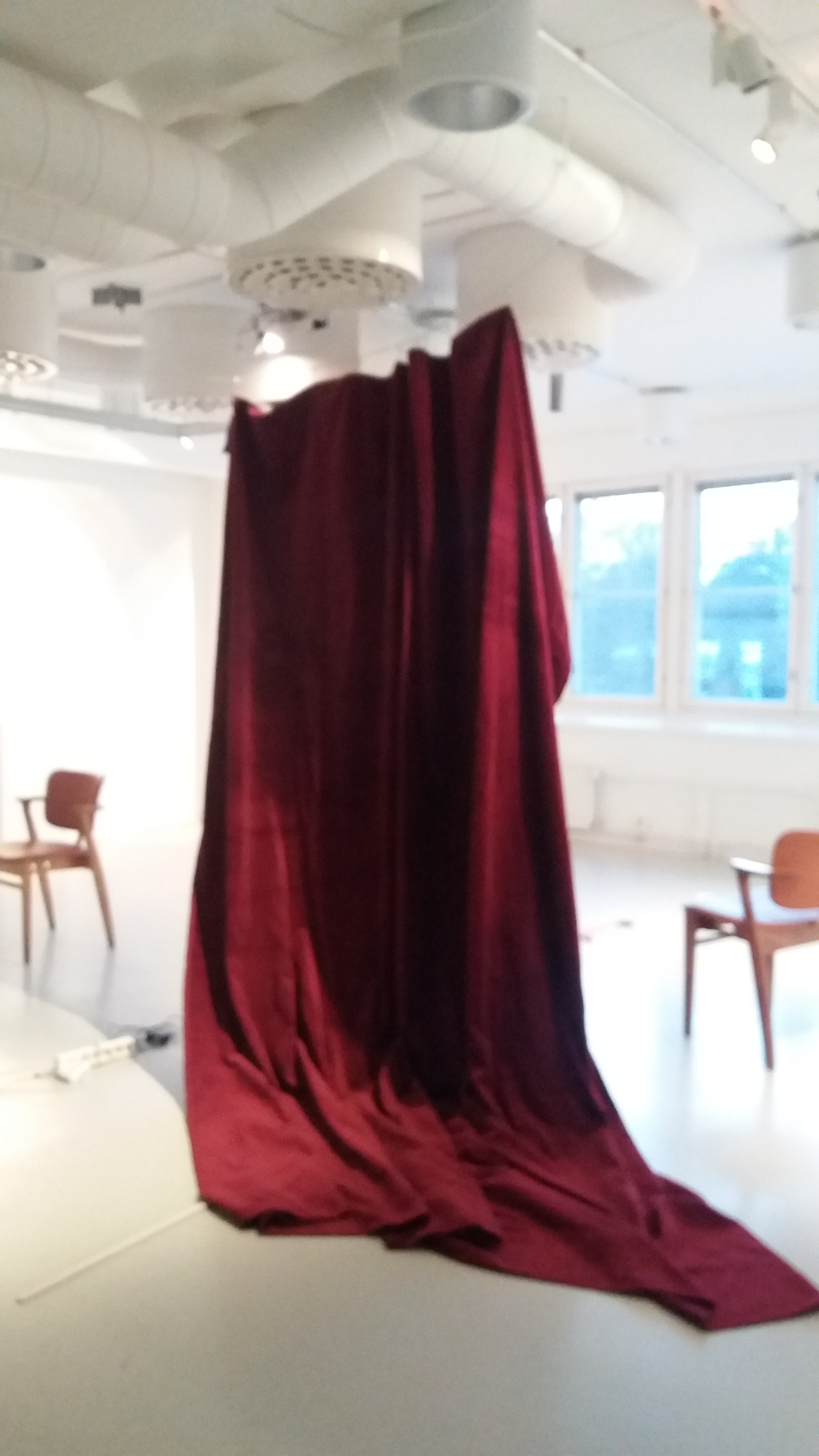 Red velvet curtain hanging from the ceiling